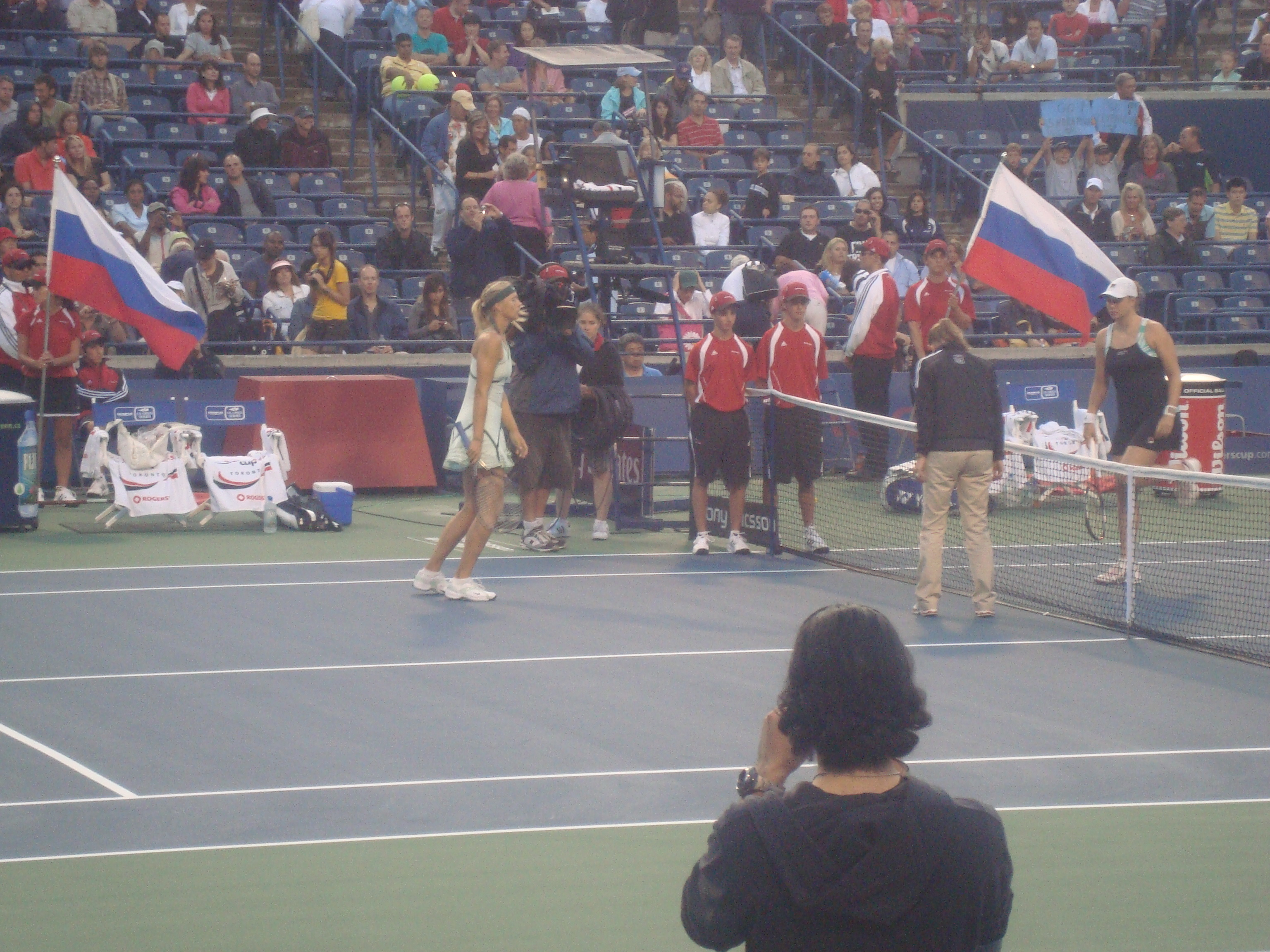 Maria Sharapova and Alisa_Kleybanova, during the semi final, Toronto, Canada, 2009